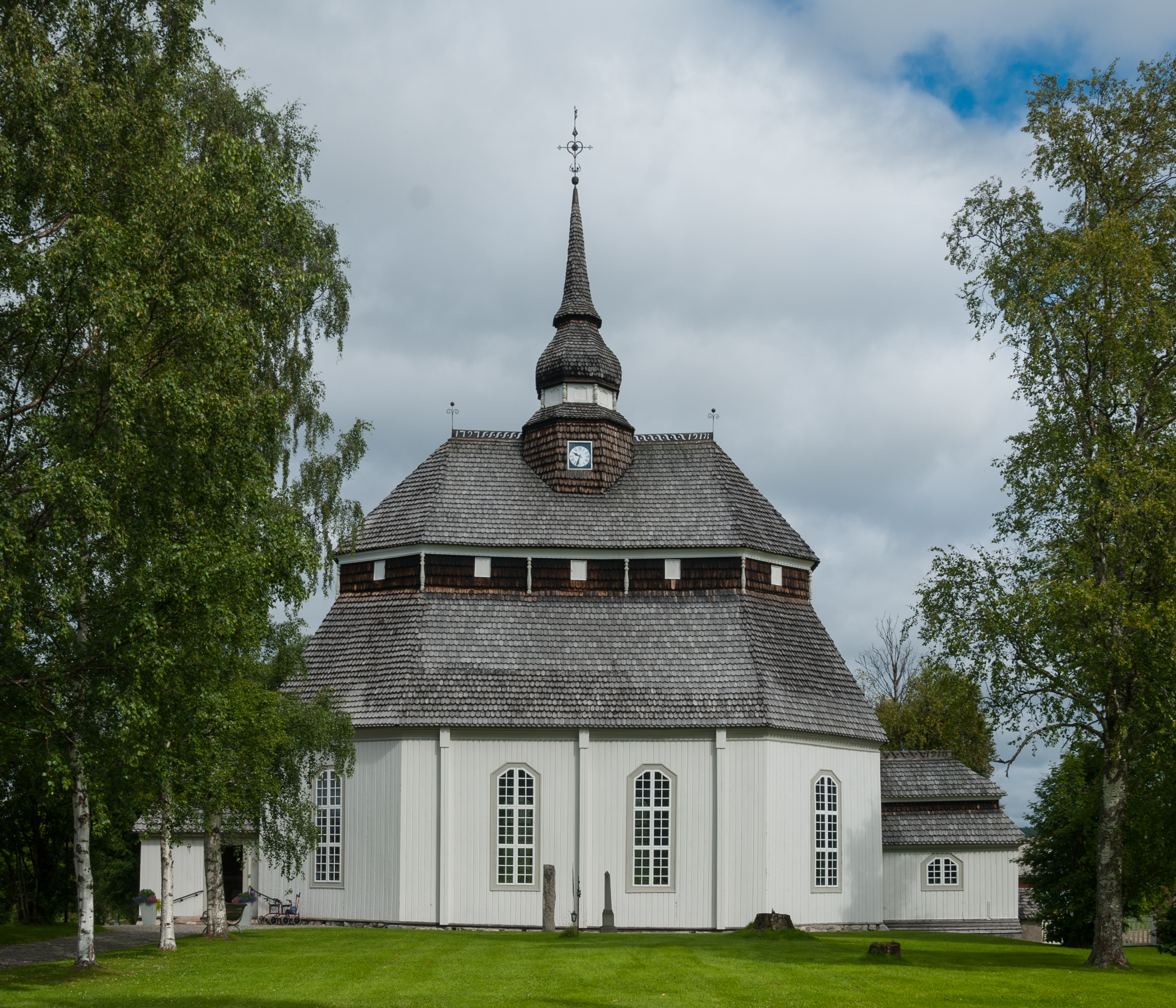 Vemdalens kyrka (church), Vemdalen, Härjedalen Municipality, Jämtland County. Church of Sweden, Diocese of Härnösand.